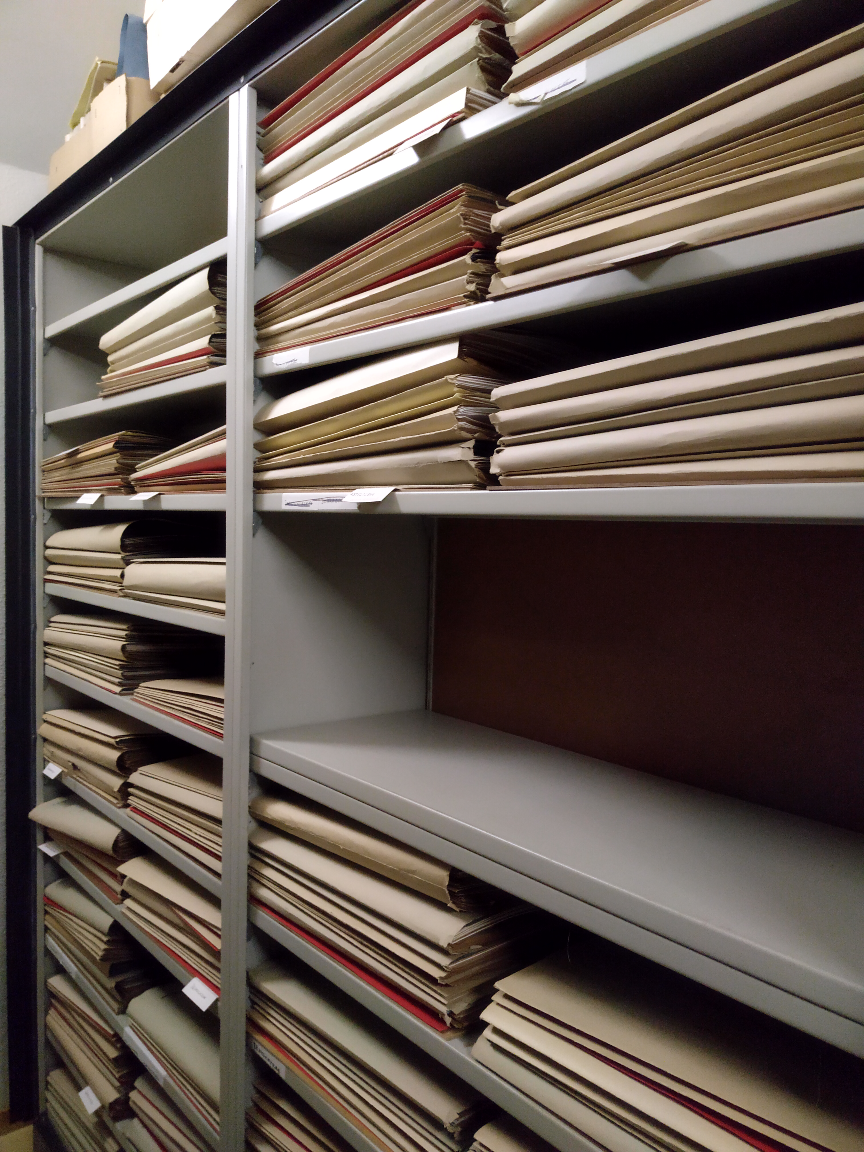 herbarium sheets stored in the compactus at the Herbarium LUX at the MnhnL